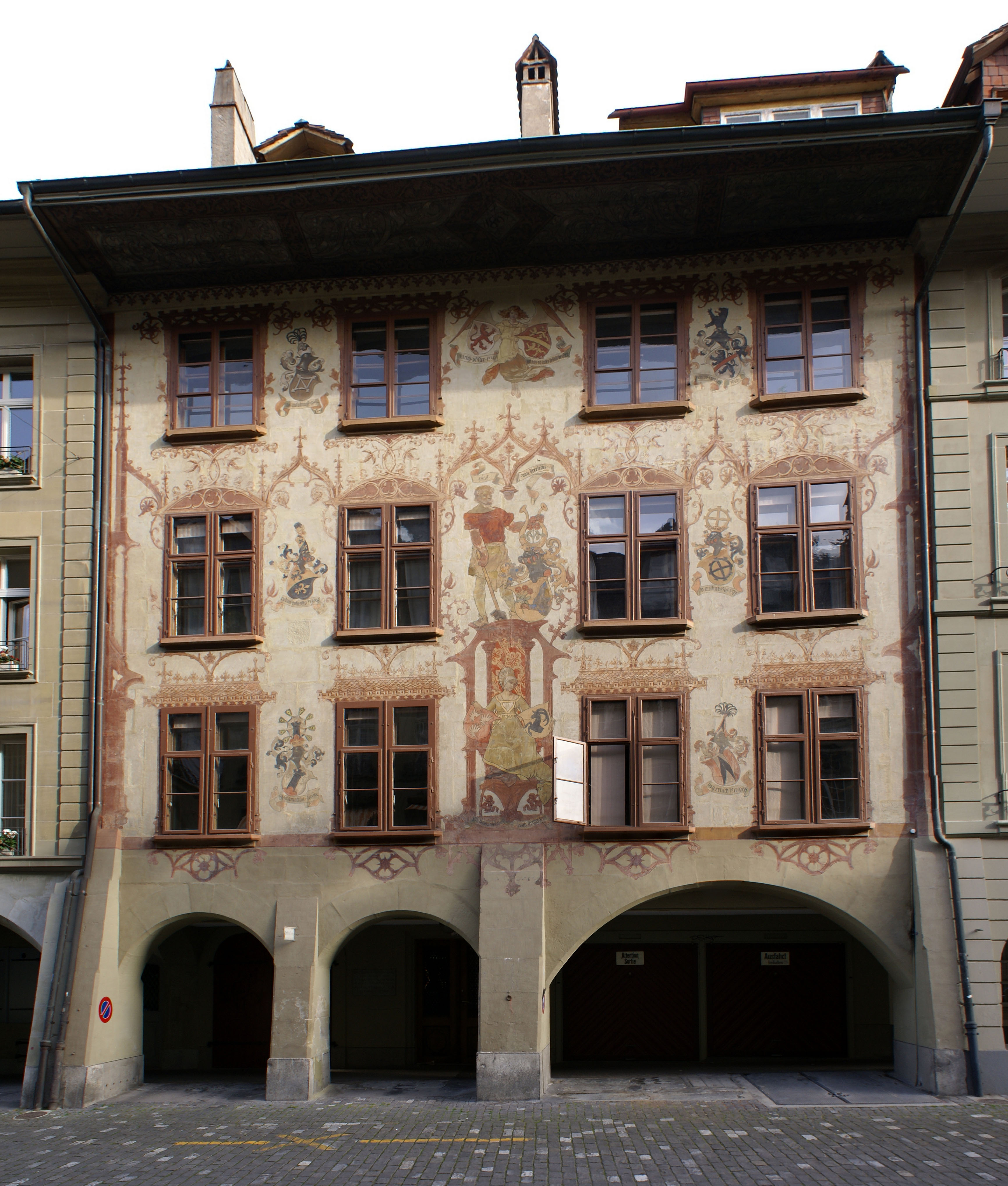 Junkerngasse 51, Berne, Switzerland. Zeerlederhaus (17th. ct.), facade painting by Rudolf Münger 1897.